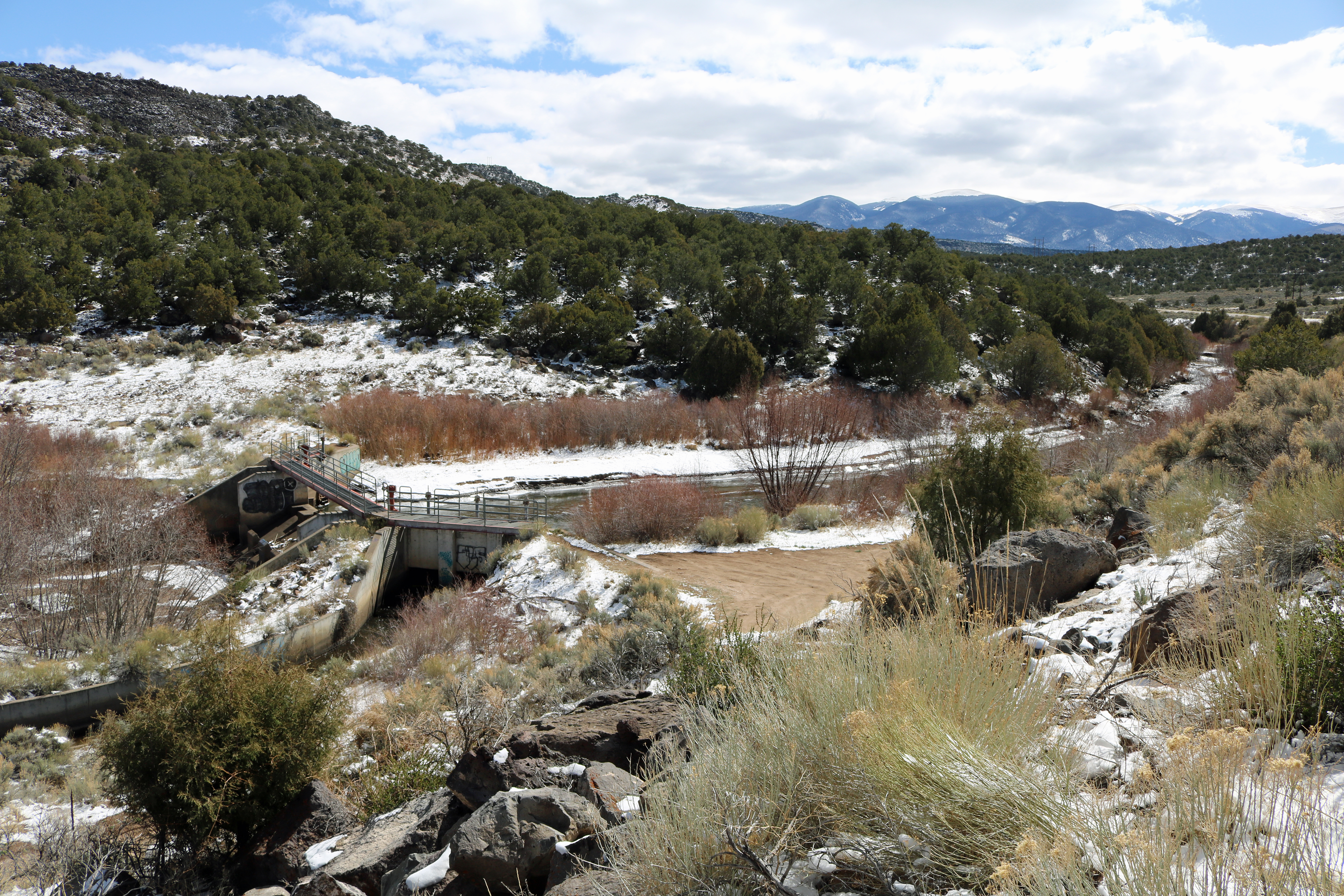 A view of a diversion dam on Costilla Creek in Taos County, New Mexico. The dam is adjacent to New Mexico State Road 196, near Costilla, New Mexico.